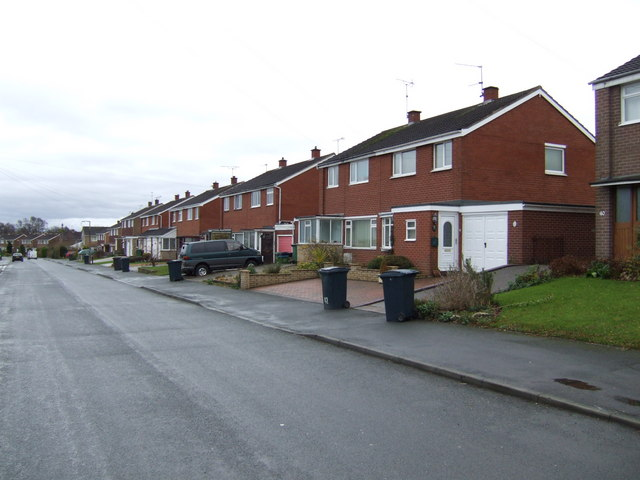 Glebe Road, Bayston Hill A dormitary village to the south of Shrewsbury.